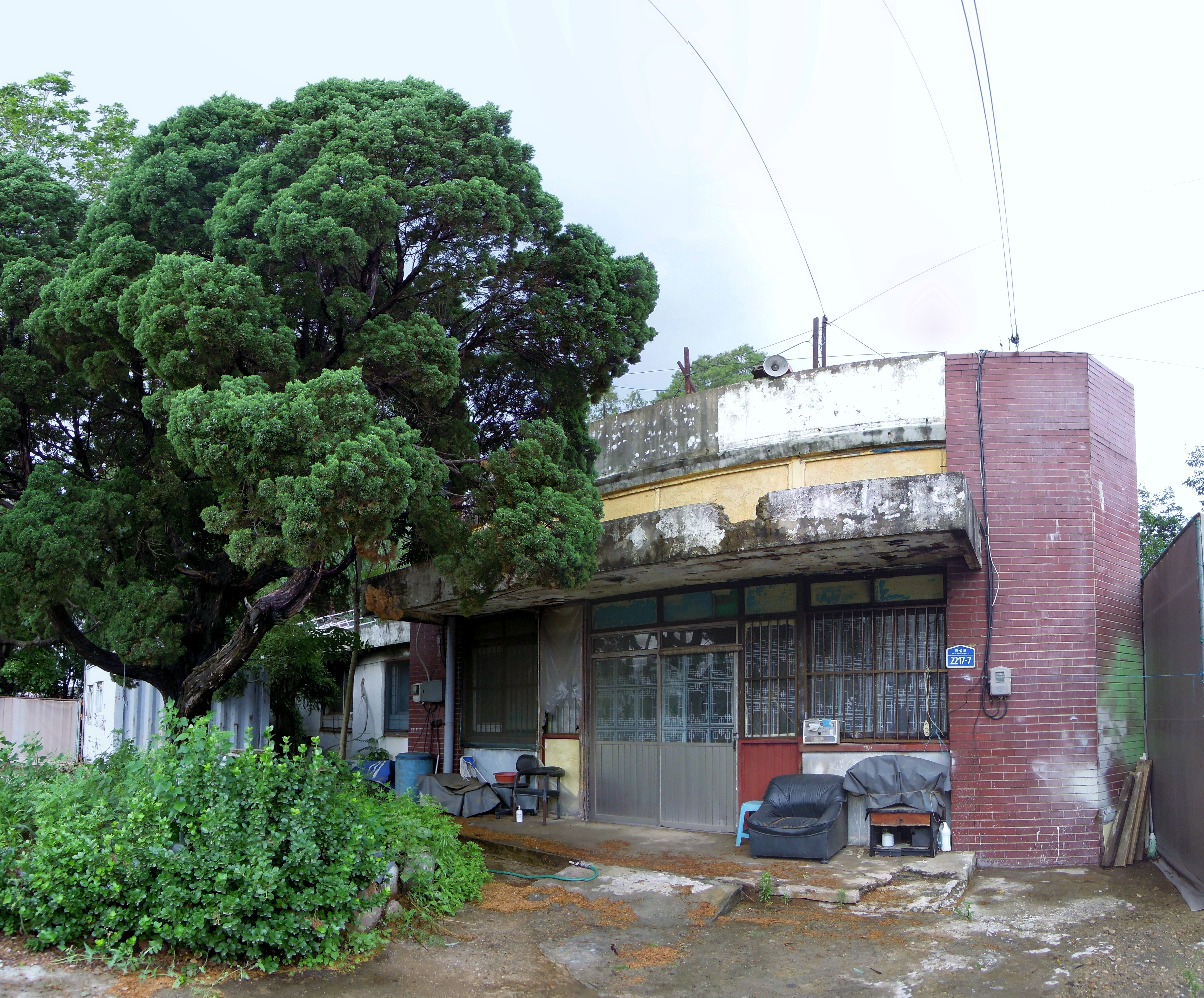 Eocheon Station